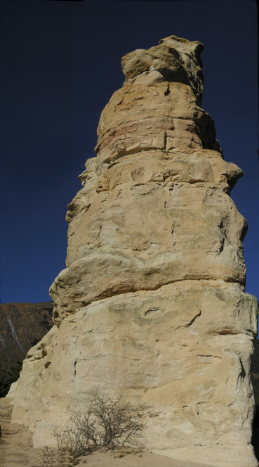 Monument Rock stands on the western side of Monument, CO.